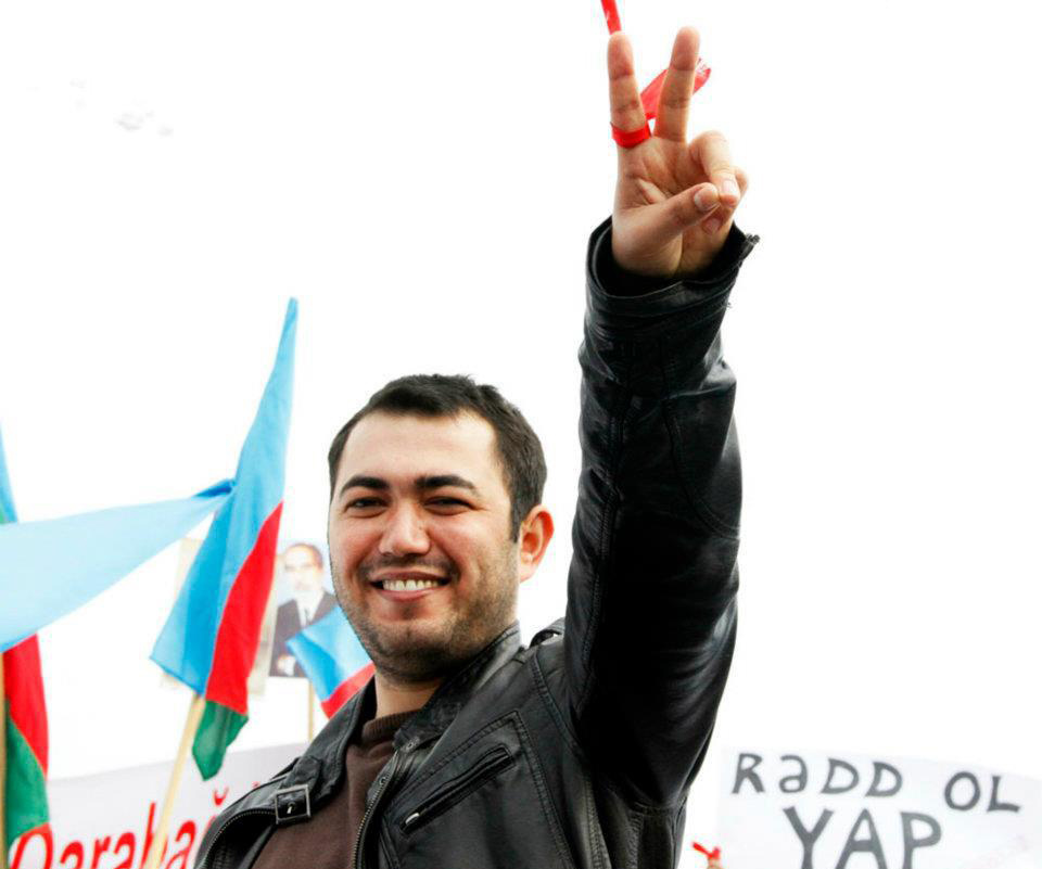 Rashadat Akhundov is imprisoned Azerbaijani democracy activist and co-founder of N!DA Civic Movement.